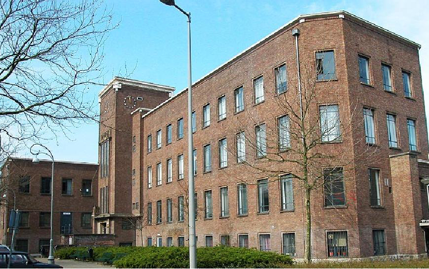 Exterior view of SMART Project Space in the former Pathological Anatomical Laboratory, Amsterdam, NL.